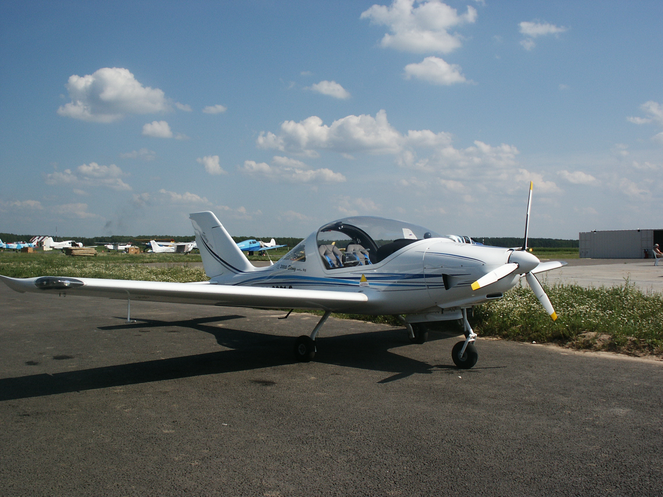 TL2000 aircraft at Severka airport; TL 2000 Sting Carbon Aircraft; manufactured in the Czech Republic